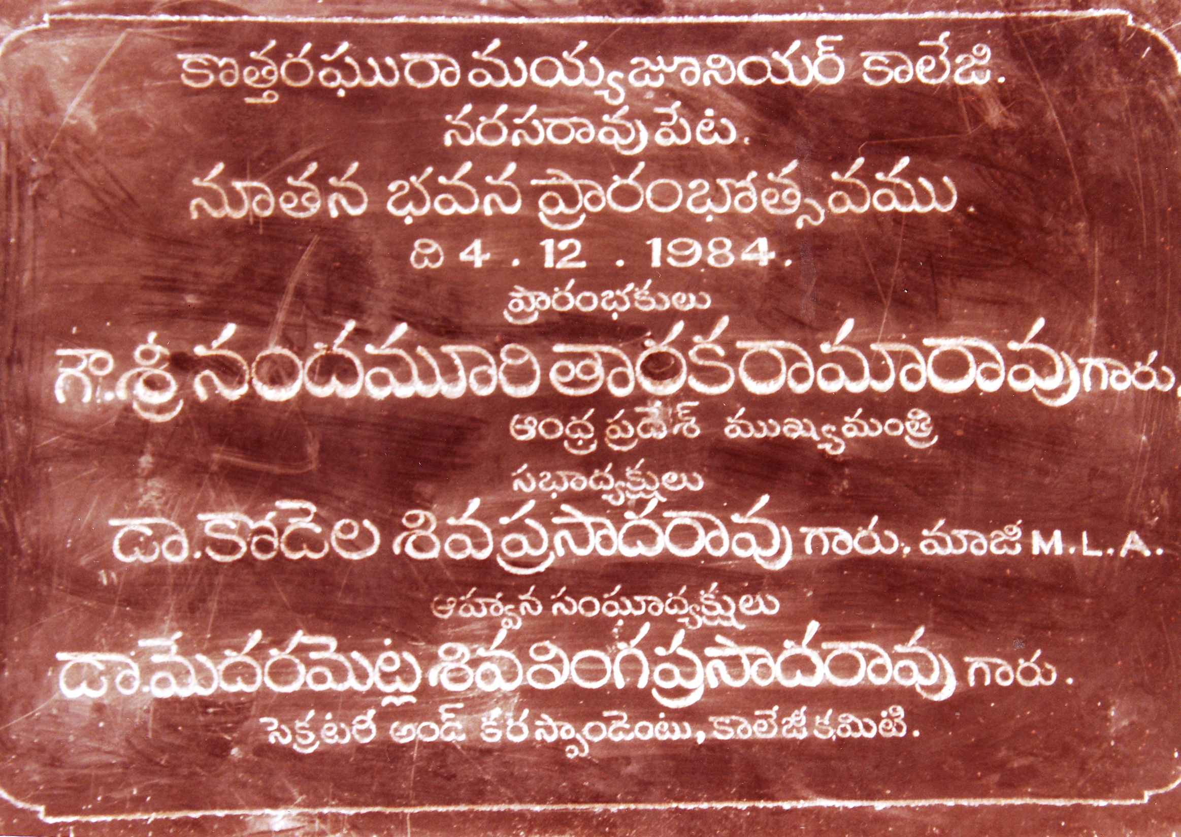 Kottha Raghuramaiah Junior College New Buildings opening Ston plate, Narasaraopeta Town